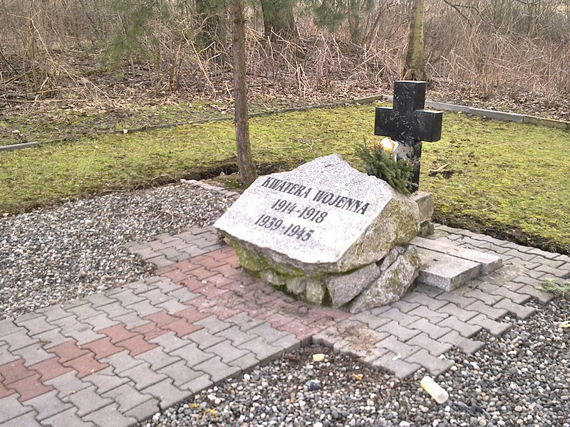 Bytom, Poland. World War I and World War II memorial in Łagiewniki district, former cemetery.